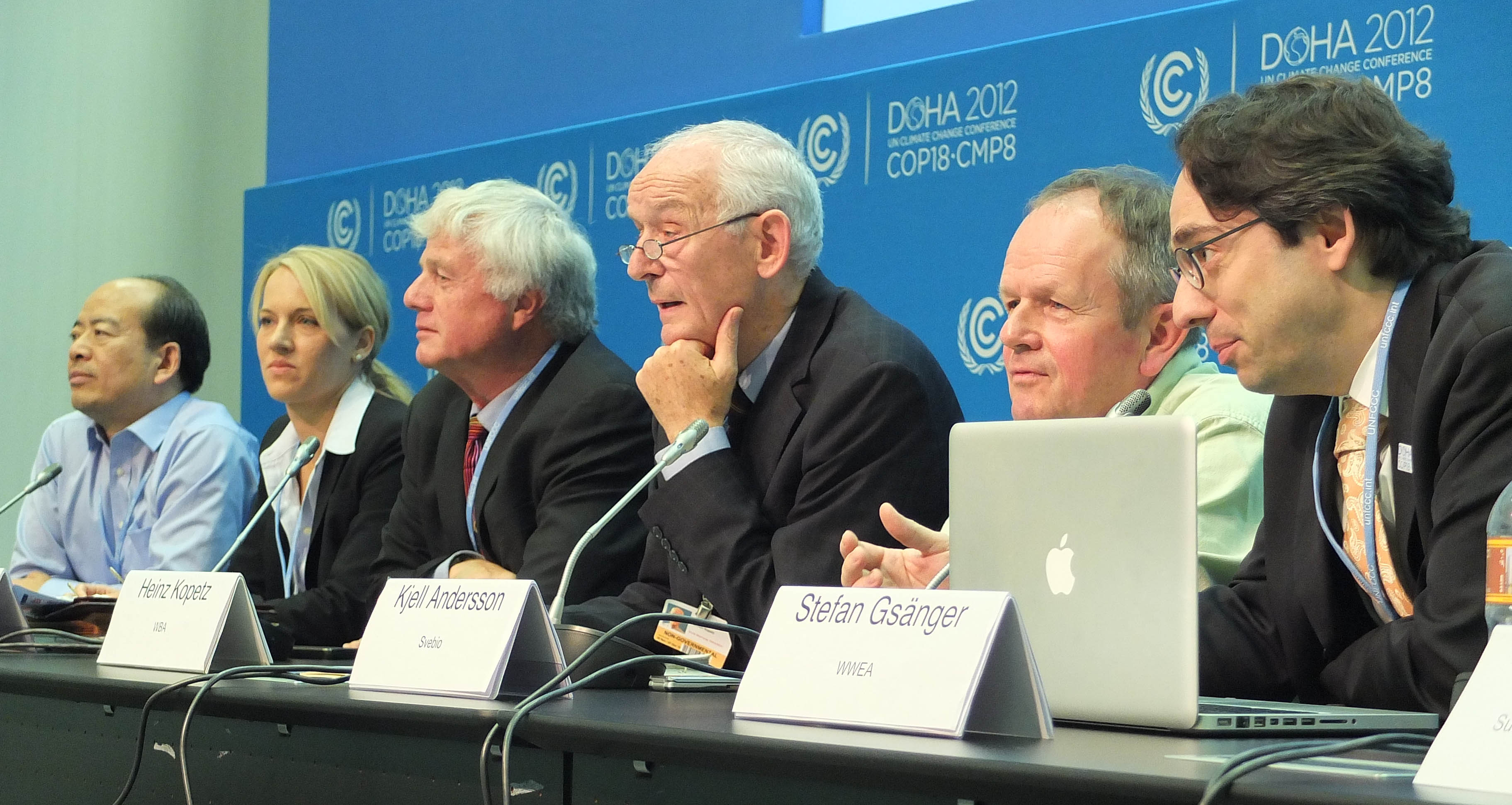 REN Alliance COP18 side event: Towards 100% Renewables: Case studies and examples from regions and municipalities